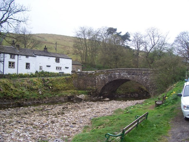 Hubberholme Bridge, crossing the River Wharfe, North Yorkshire